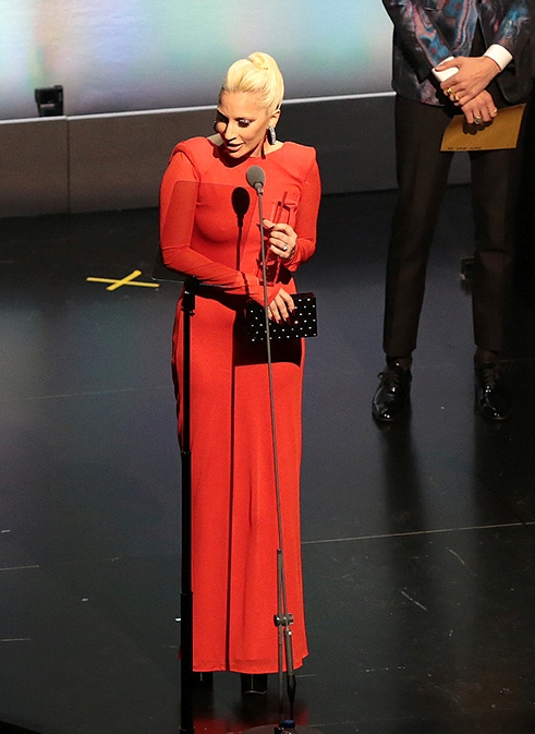 Lady Gaga receiving award on behalf of designer Tom Ford at the British Fashion Awards 2015